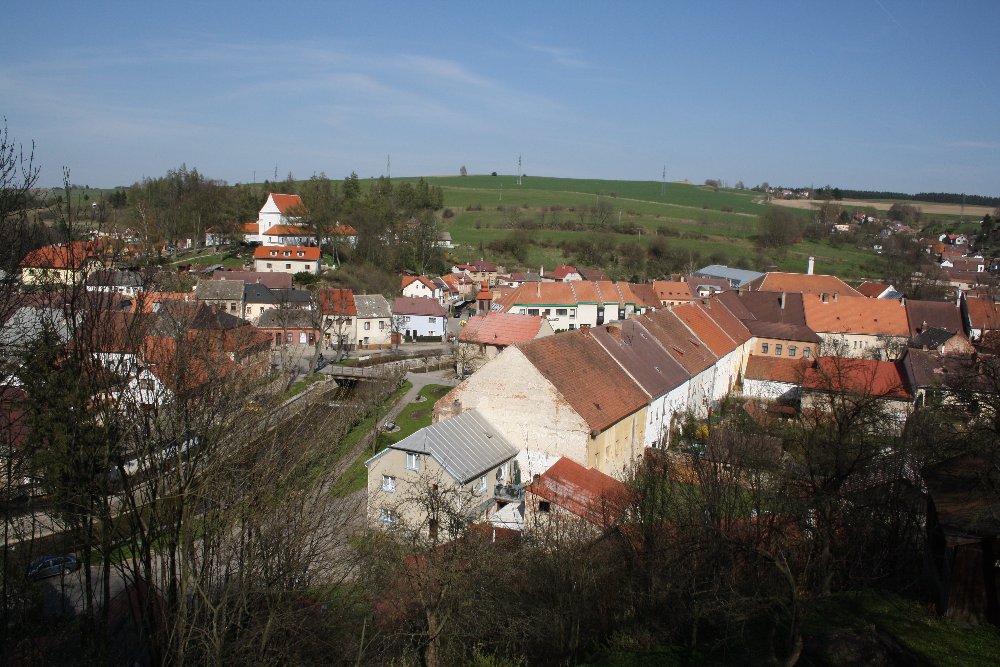 Brtnice view from castle gardens.